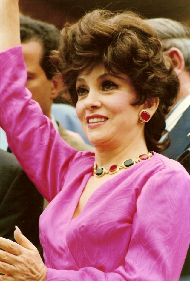 Gina Lollobrigida in the year of 1991.